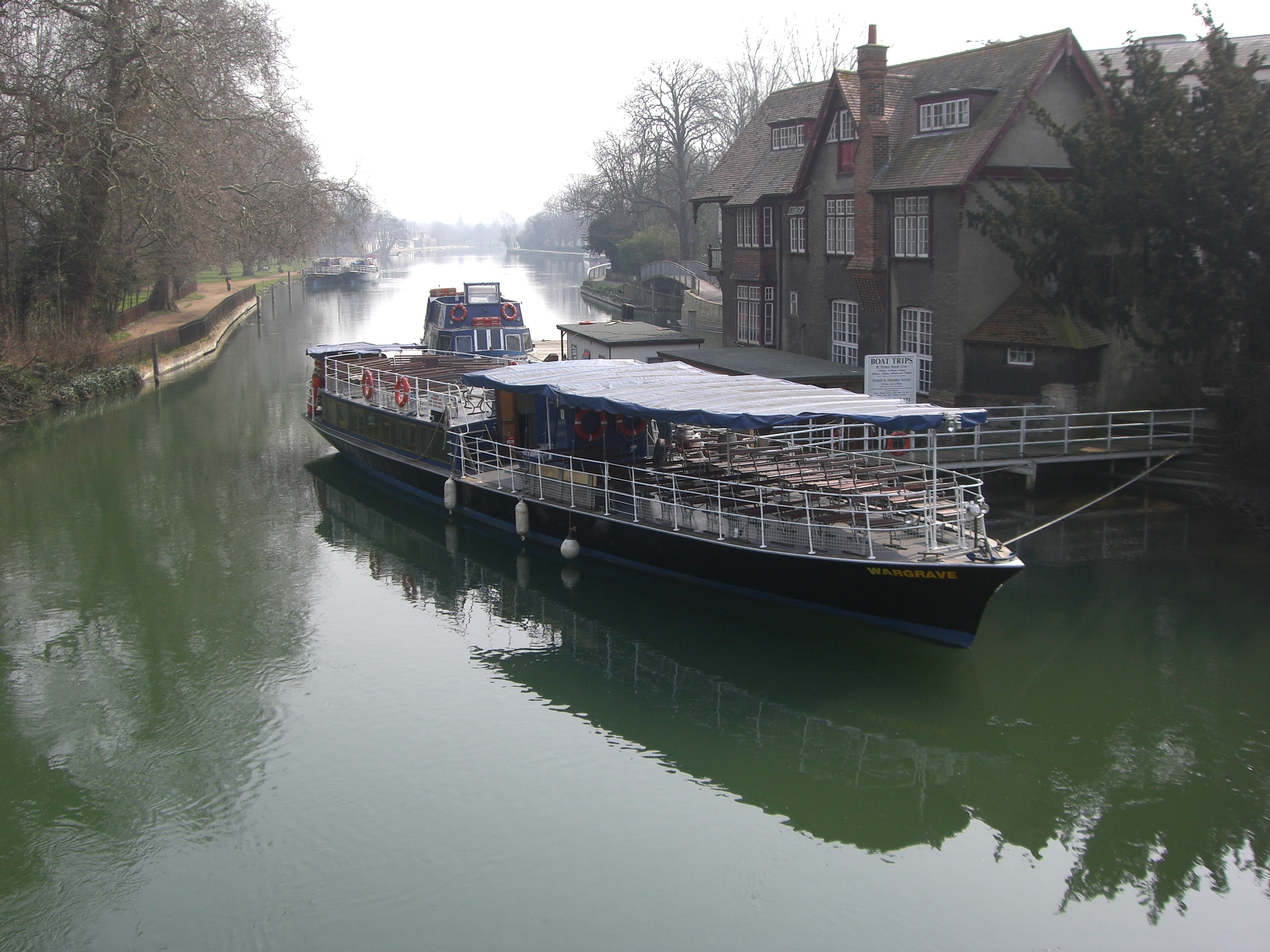 A boat belonging to Salters Steamers, by Folly Bridge in Oxford